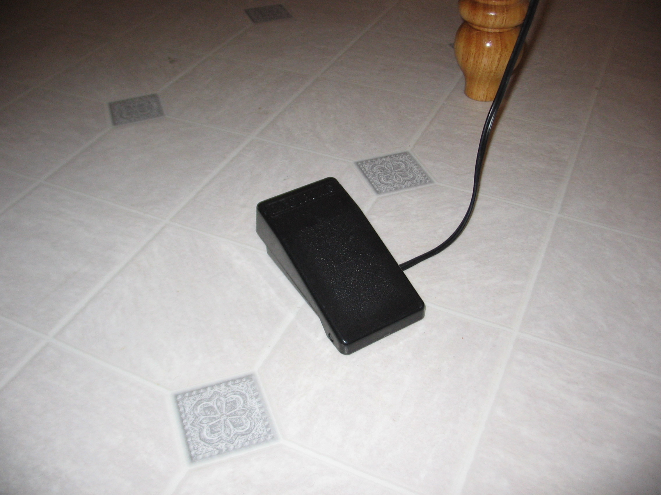 Photo showing the control pedal on a Singer sewing machine.